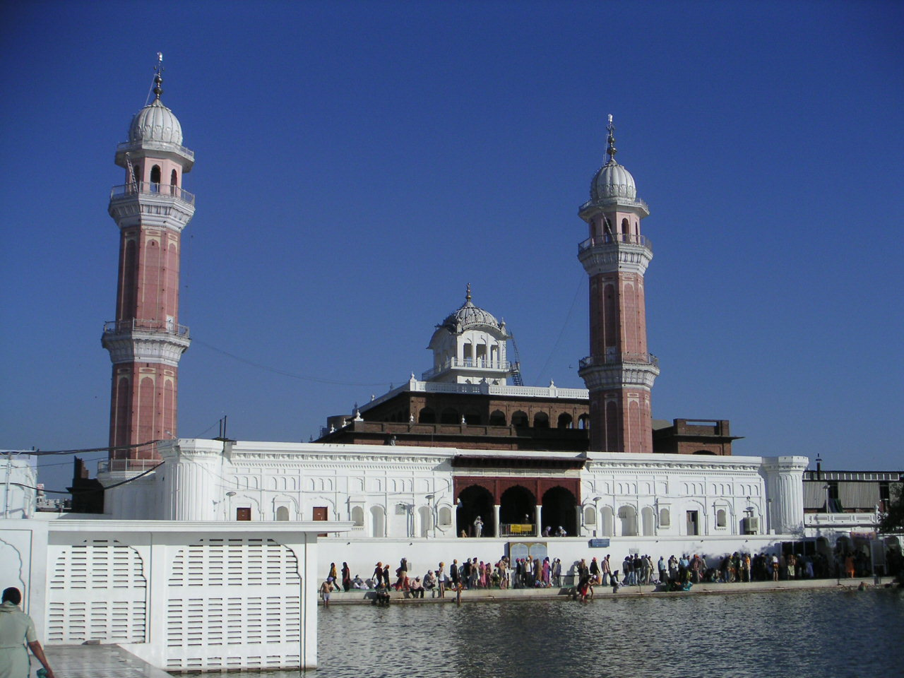 Golden Temple, Amritsar. Photo: Soman